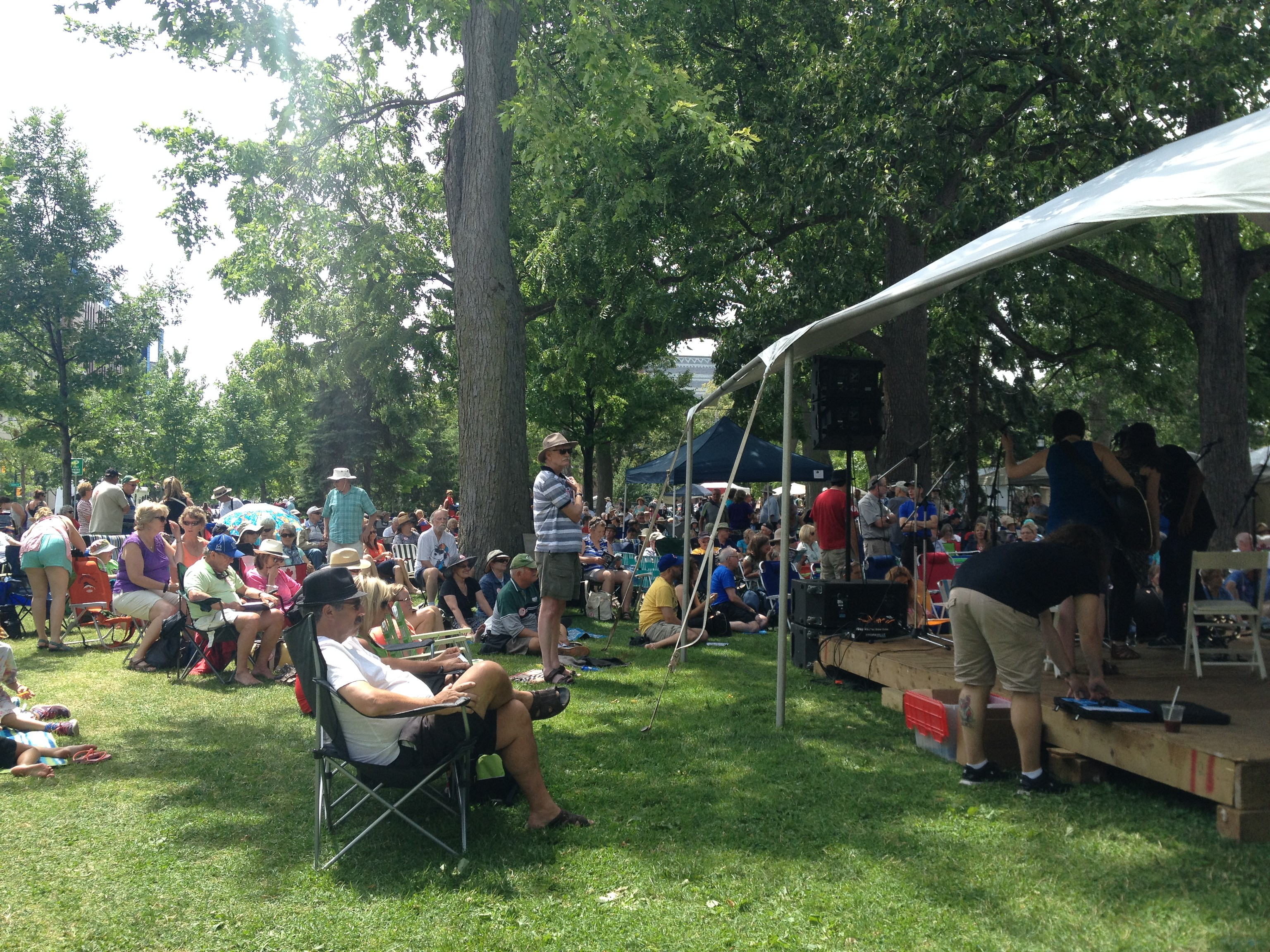 Festival attendees enjoying one of the many stages at Home County in Victoria Park